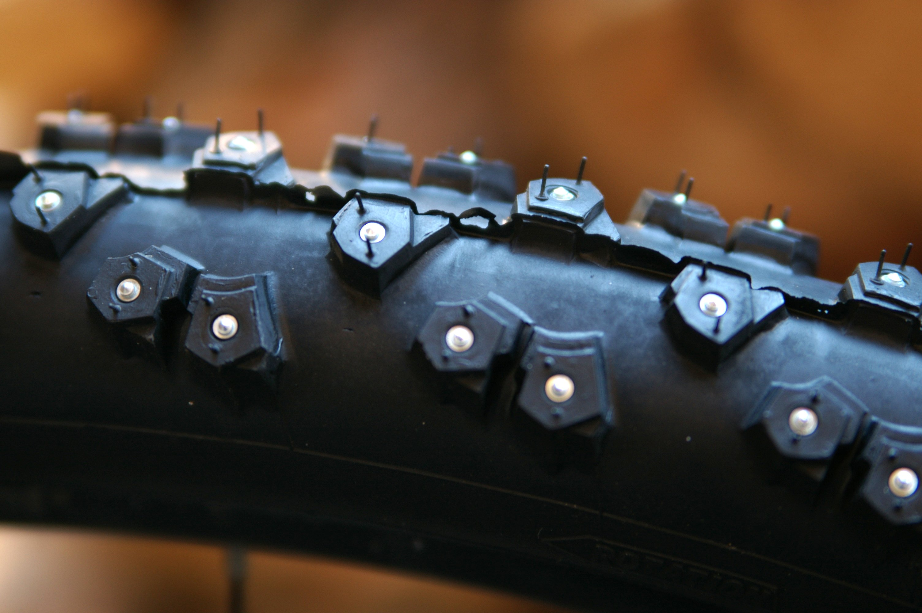 A Nokian Gazza Extreme 294 in the 29er size. (700cx54) Tungsten carbide spikes are present in each knob.